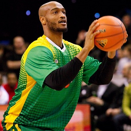 Reyshawn Terry, 2012 Ukrainian Basketball SuperLeague All-Star Game. Kiev.